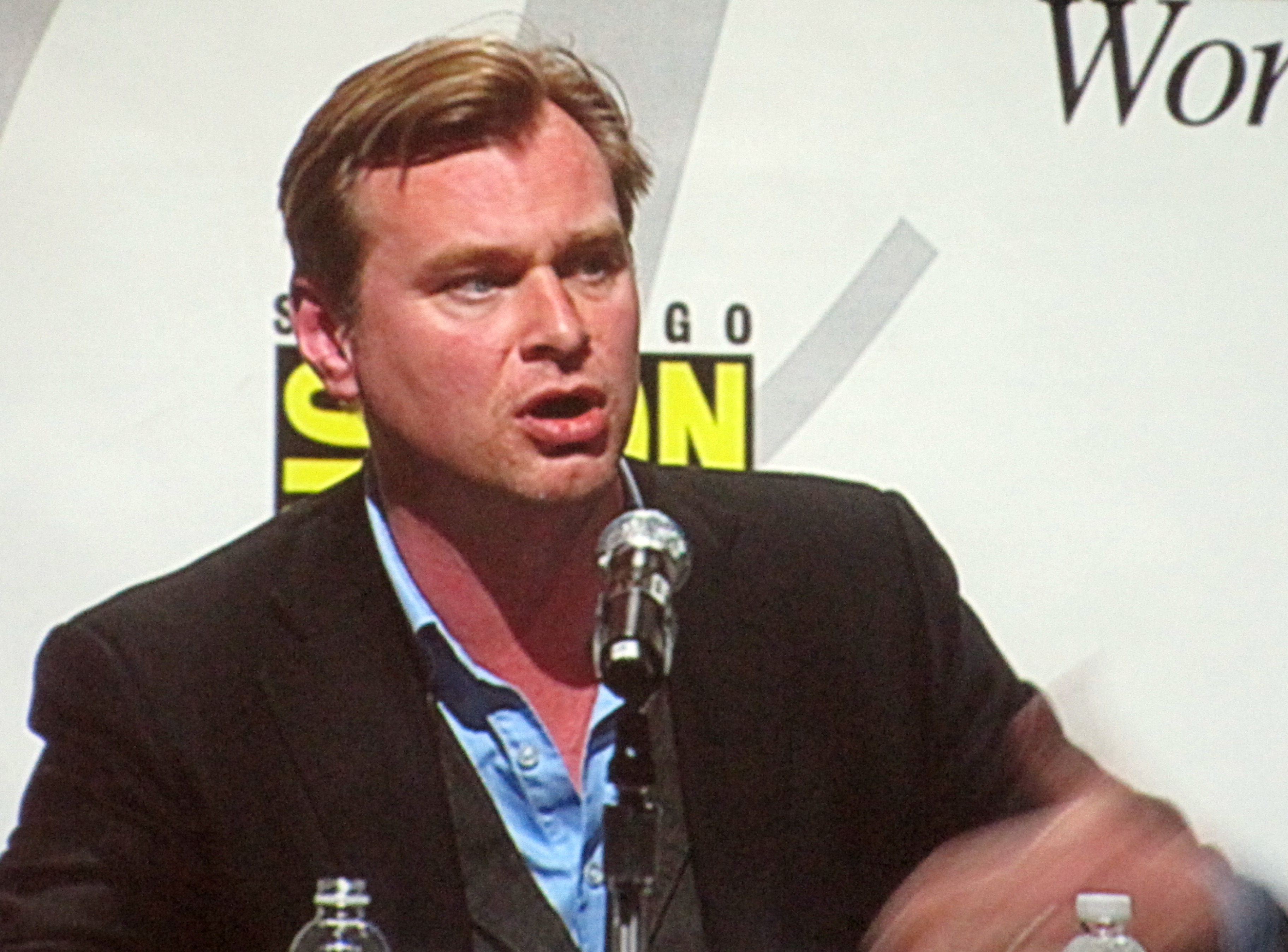 Director Christopher Nolan participating in the Inception panel at WonderCon 2010.